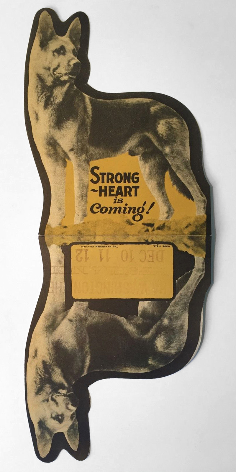 Exterior of a die-cut promotional brochure for the 1922 film Brawn of the North, featuring Strongheart